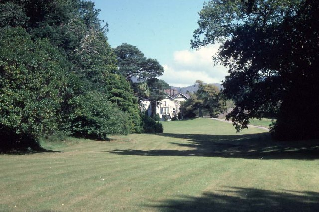 Derreen House. The gardens are renowned for rhododendrons and tree ferns.